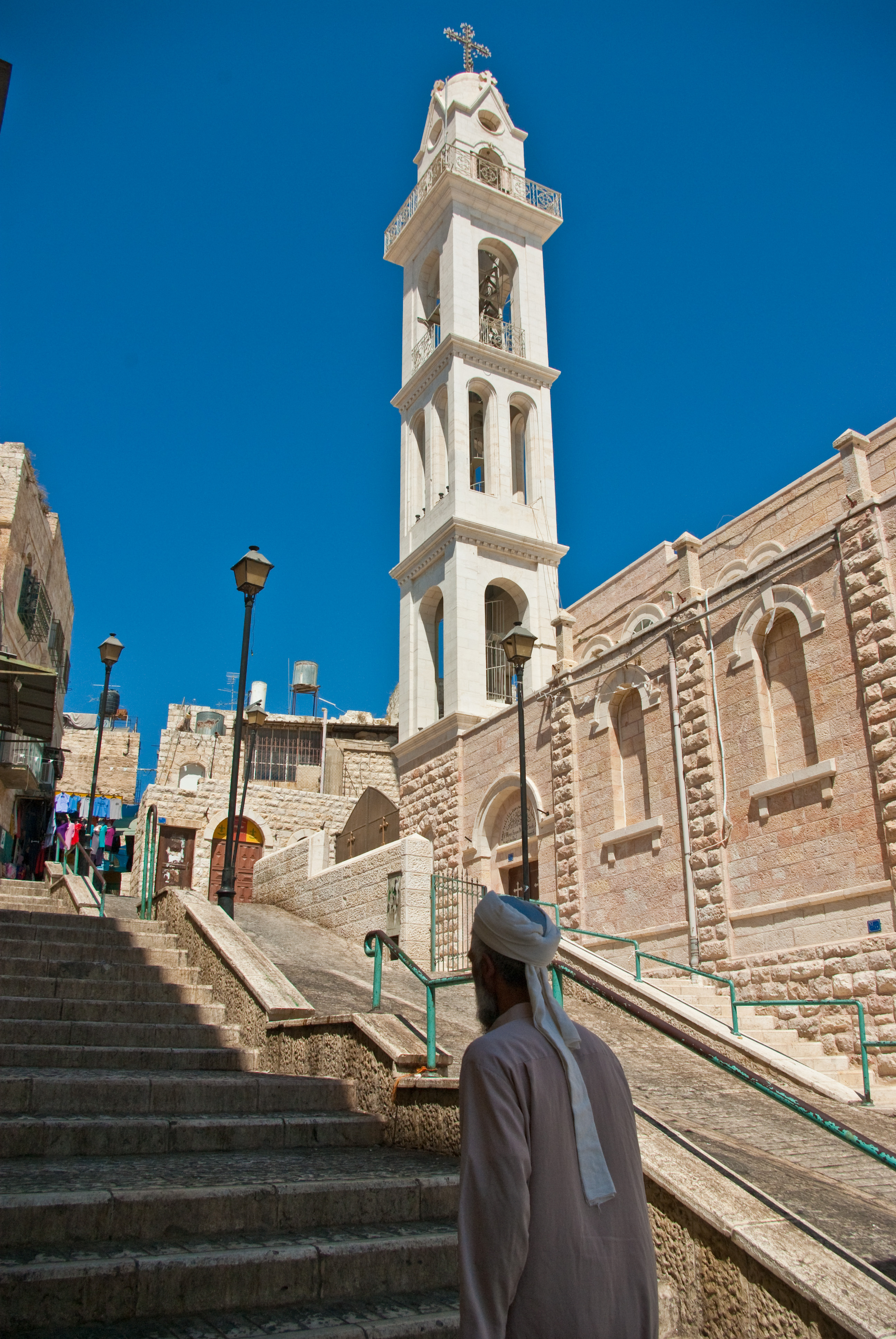 A Churches in Bethlehem